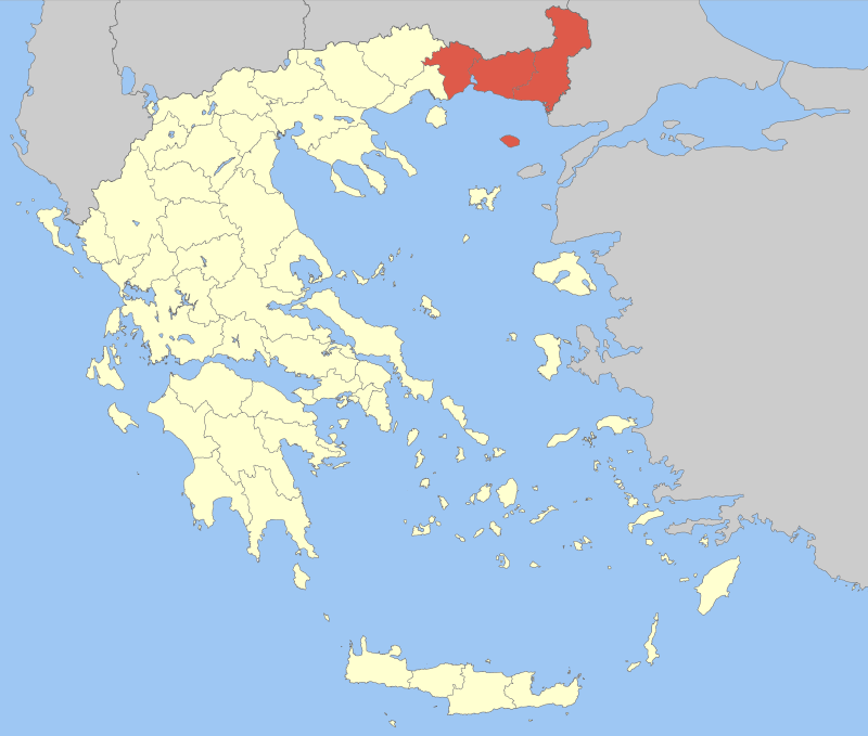 Position of Greek Thrace within Greece